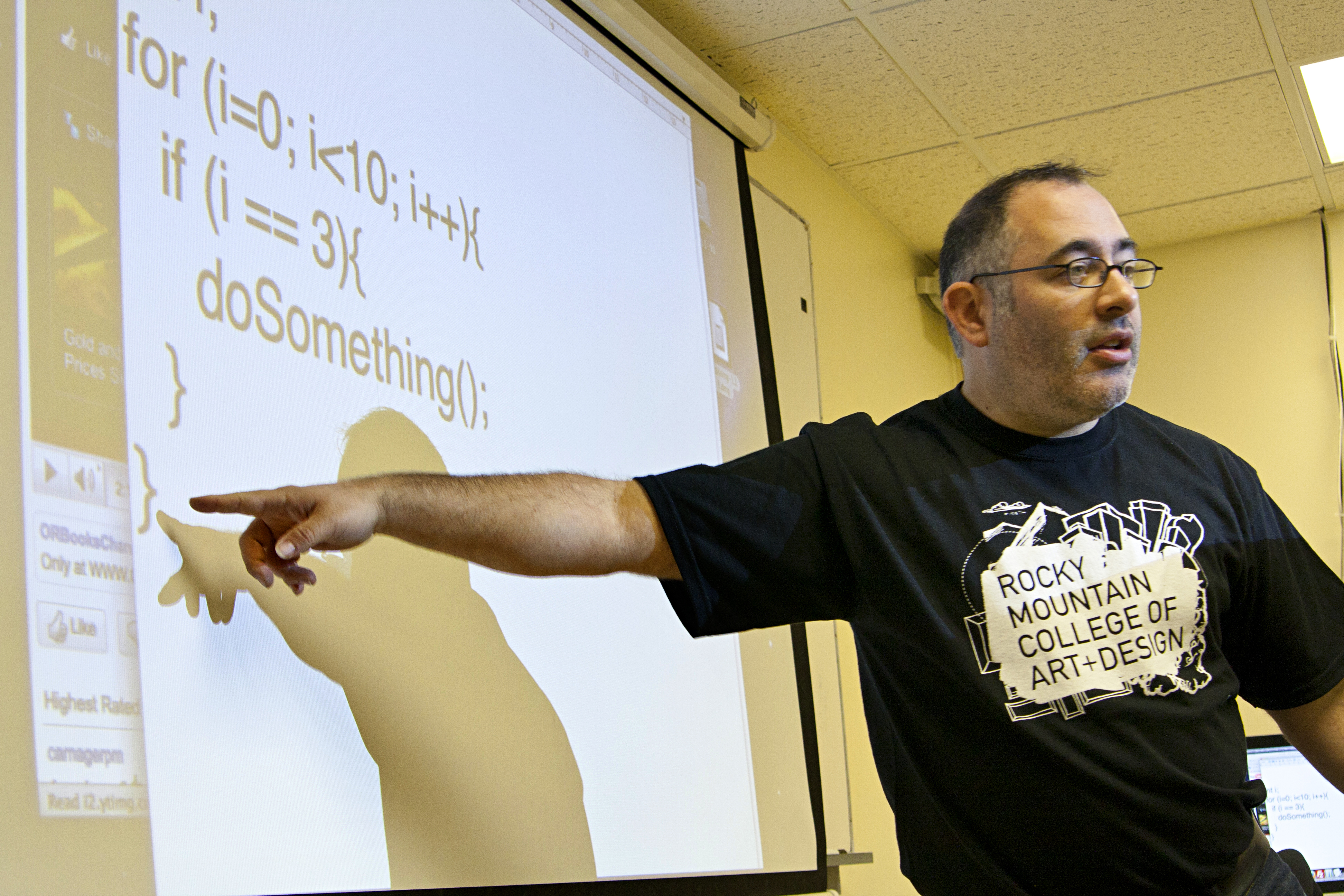 Golan Levin lecture/workshop visit to RMCAD (Rocky Mountain College of Art and Design), October 2010.